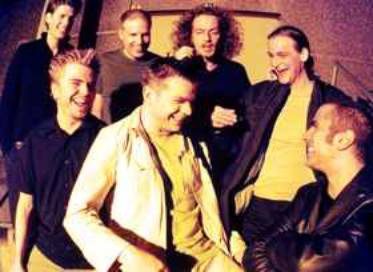 Trance band called Trance Allstars